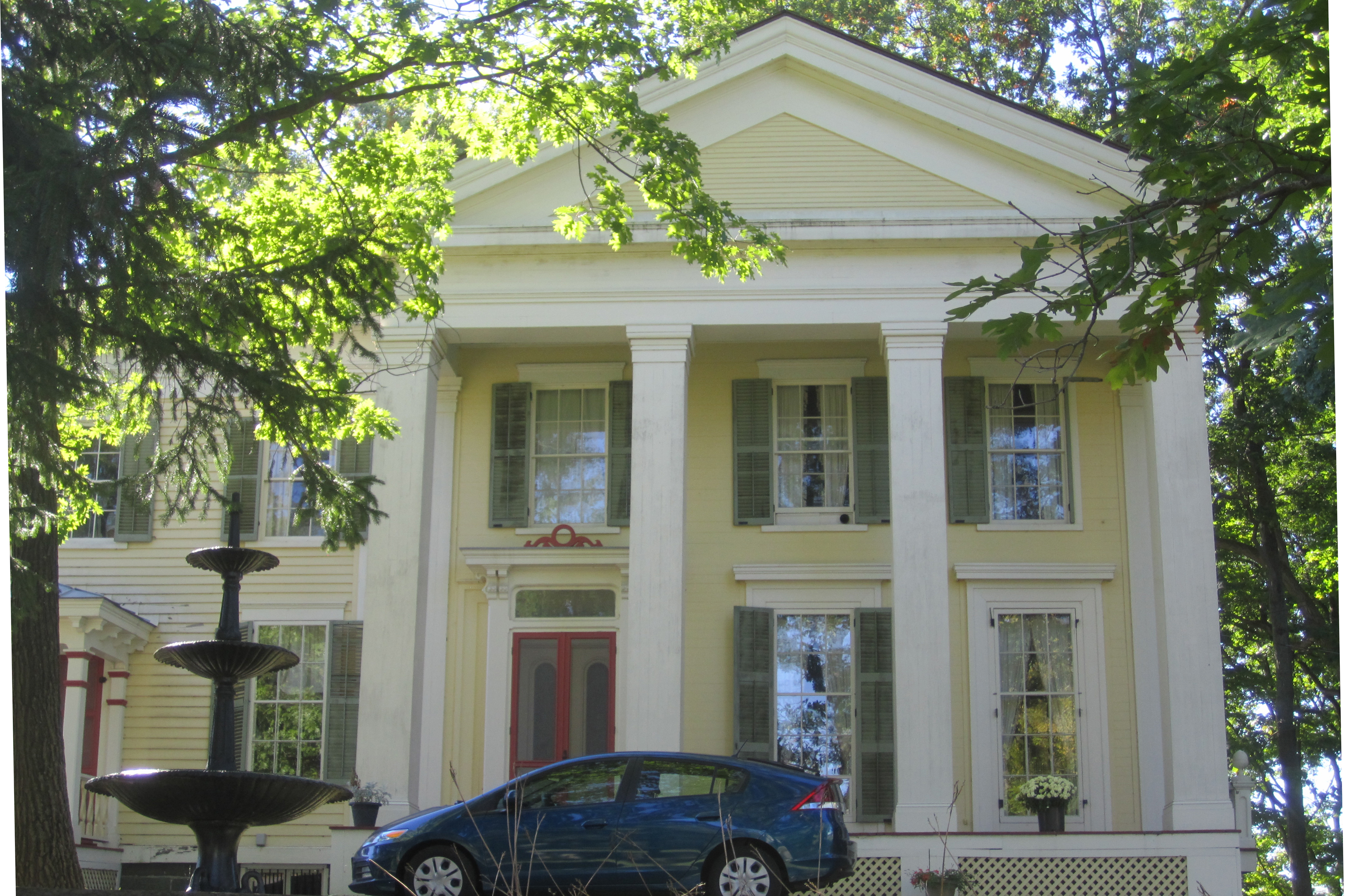 Oakcliff was built around 1835 by Judge Duncan McMartin. Residence of T.G.Younglove 1850-1882. Listed on the National Register of Historic Places.